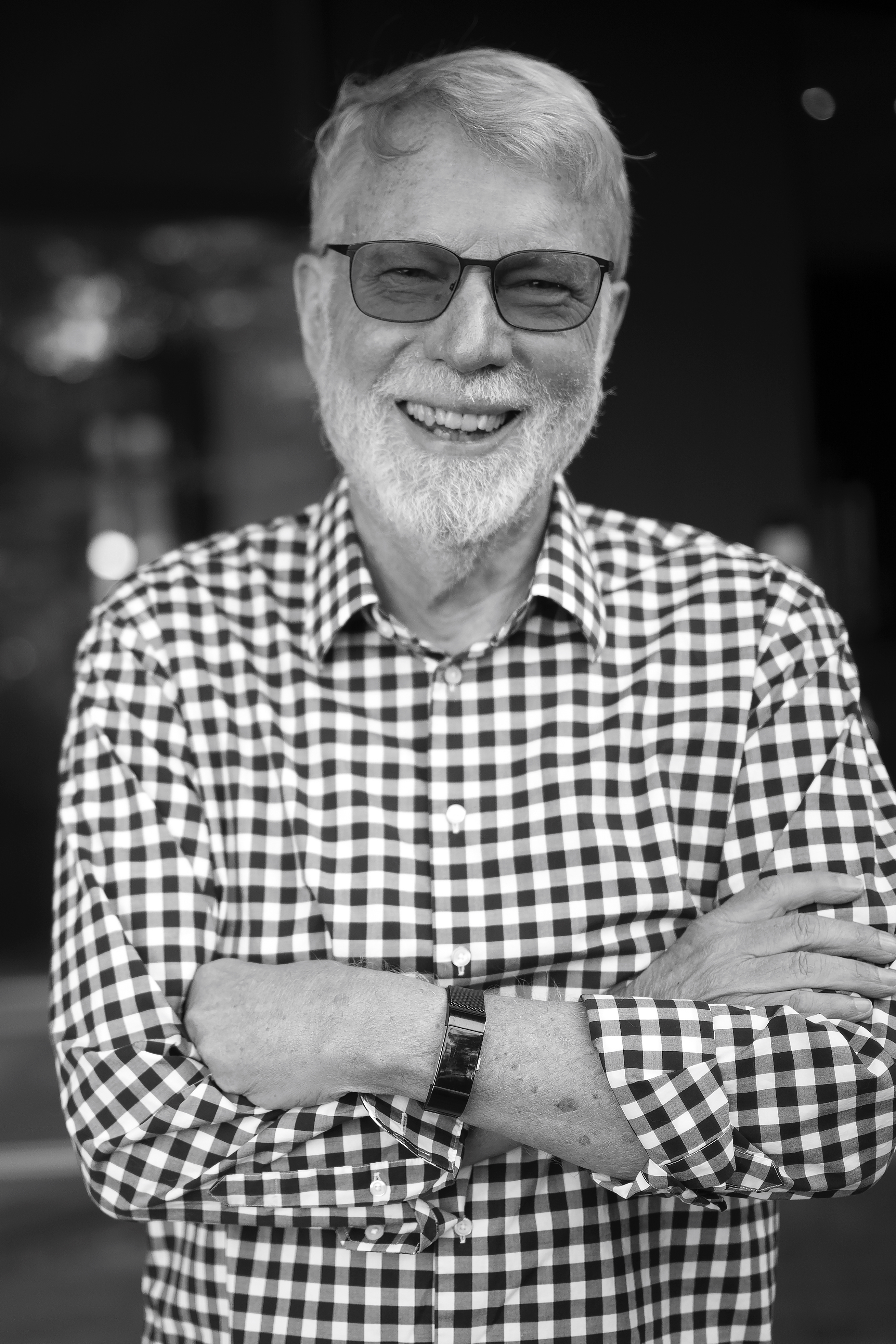 John Seely Brown at CASBS in 2019 by Christopher Michel.